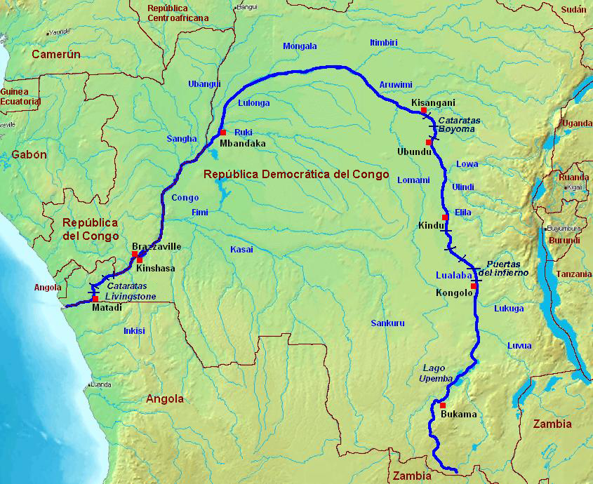 Map of the Congo River course and its tributaries — with place names in Spanish.